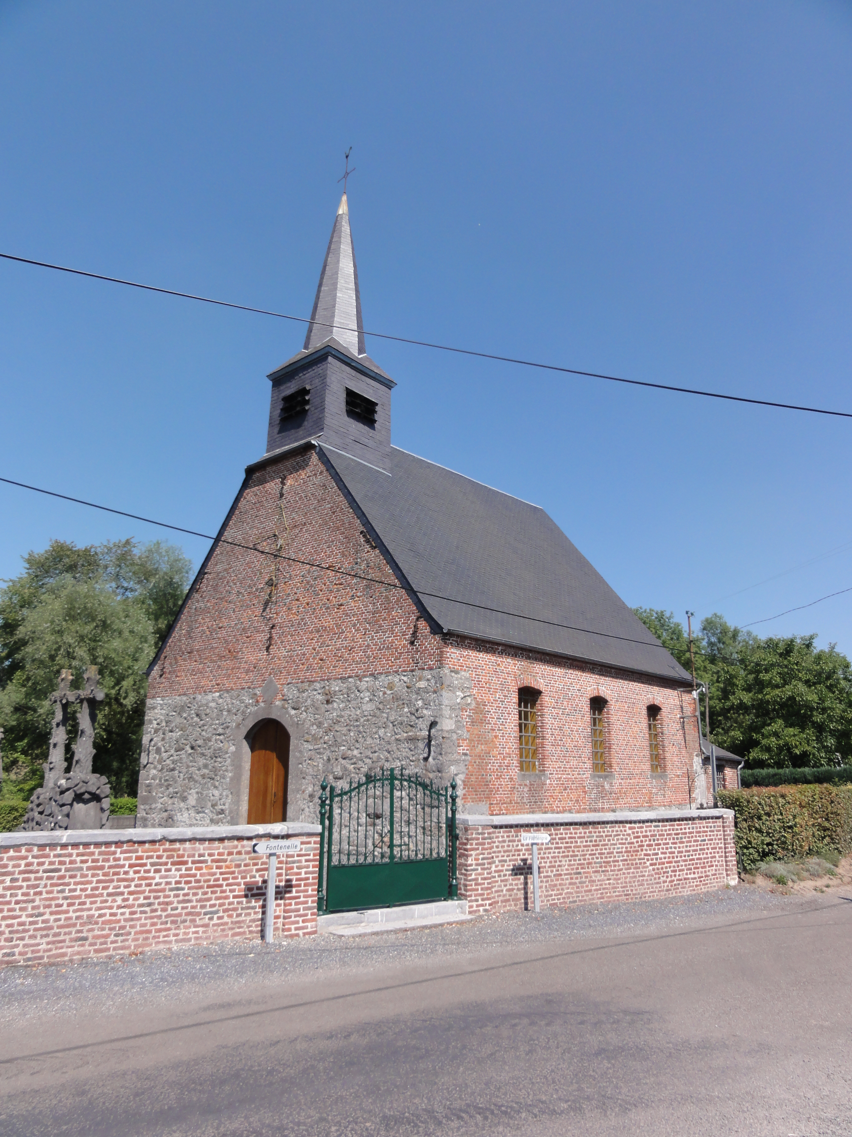 Papleux (Aisne, Fr) église